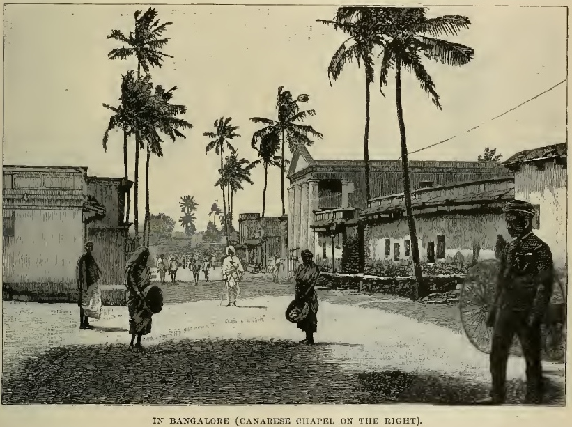 In Bangalore (Canarese Chapel on the right). Illustration for Conquests of the Cross, A Record of Missionary Work throughout the World edited by Edwin Hodder (Cassell, c 1890)